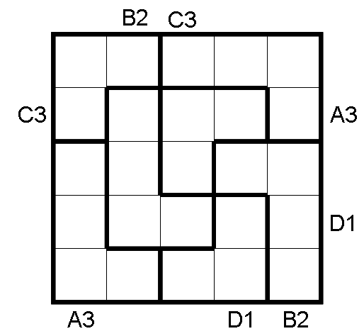 Unsolved Kin-Kon-Kan grid